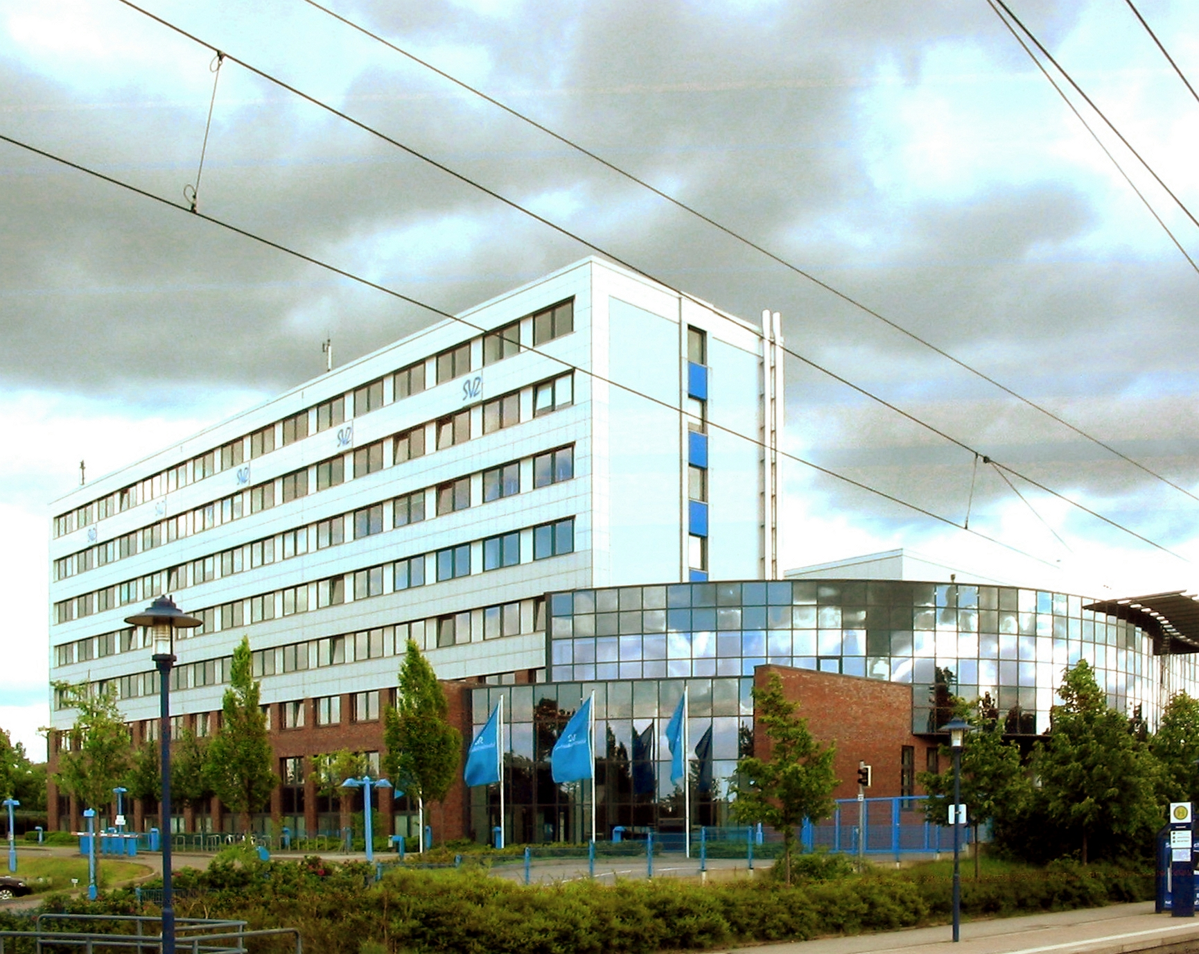 publishing house of the newspaper "Schweriner Volkszeitung" in Schwerin, Germany